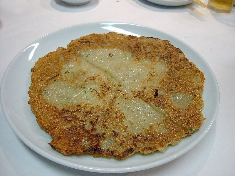 Gamjajeon is a variety of jeon or Korean pancake that made with potato (gamja)